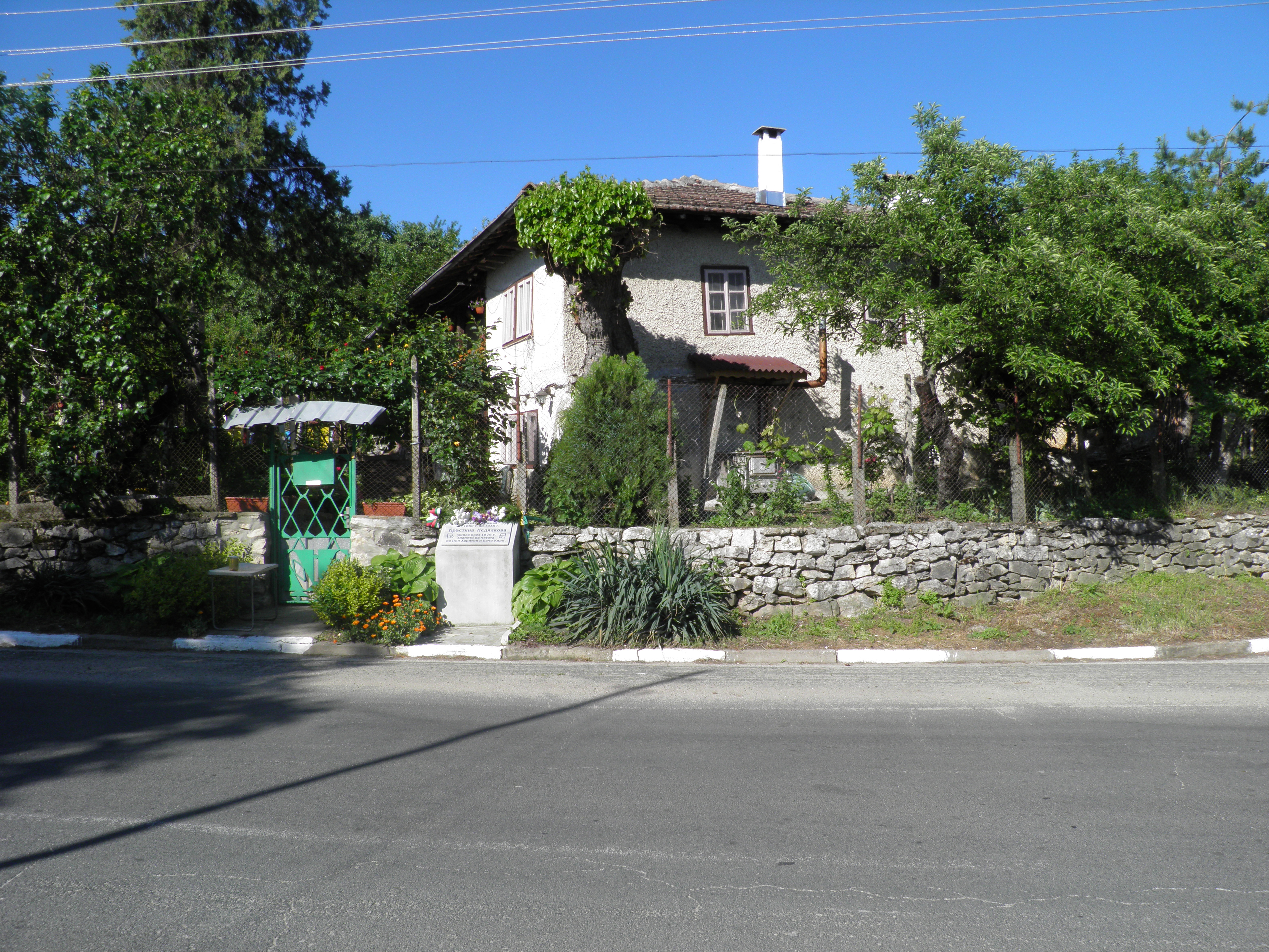 Krastina Nedyalkova`s house,Musina,Bulgaria